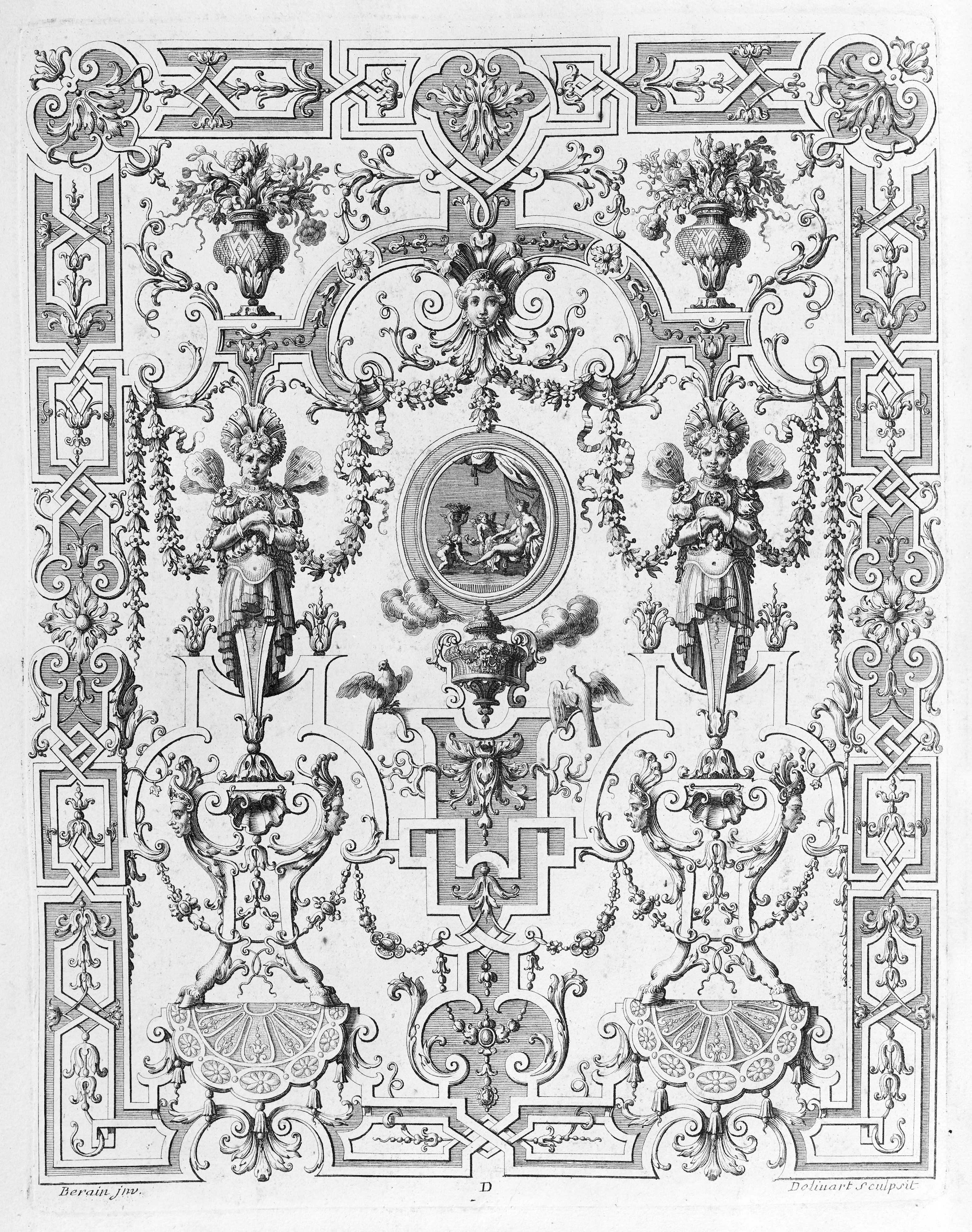 Book Prints Ornament & Architecture; Books